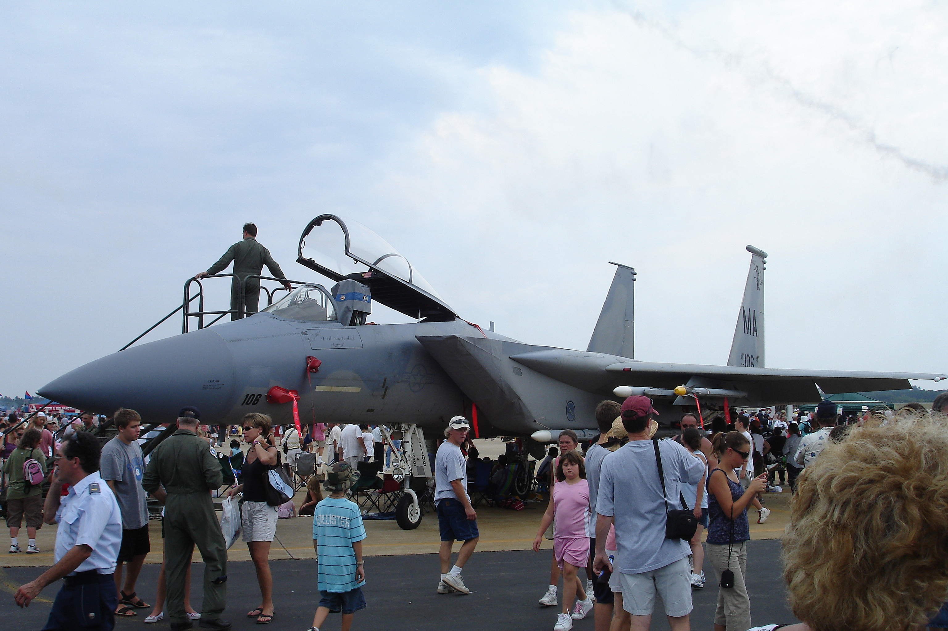 A U.S. Air Force McDonnell Douglas F-15C Eagle from the 101st Fighter Squadron, 102nd Fighter Wing, Massachusetts Air National Guard, on display ath the Otis Air National Guard Base Air Show, in 2007.